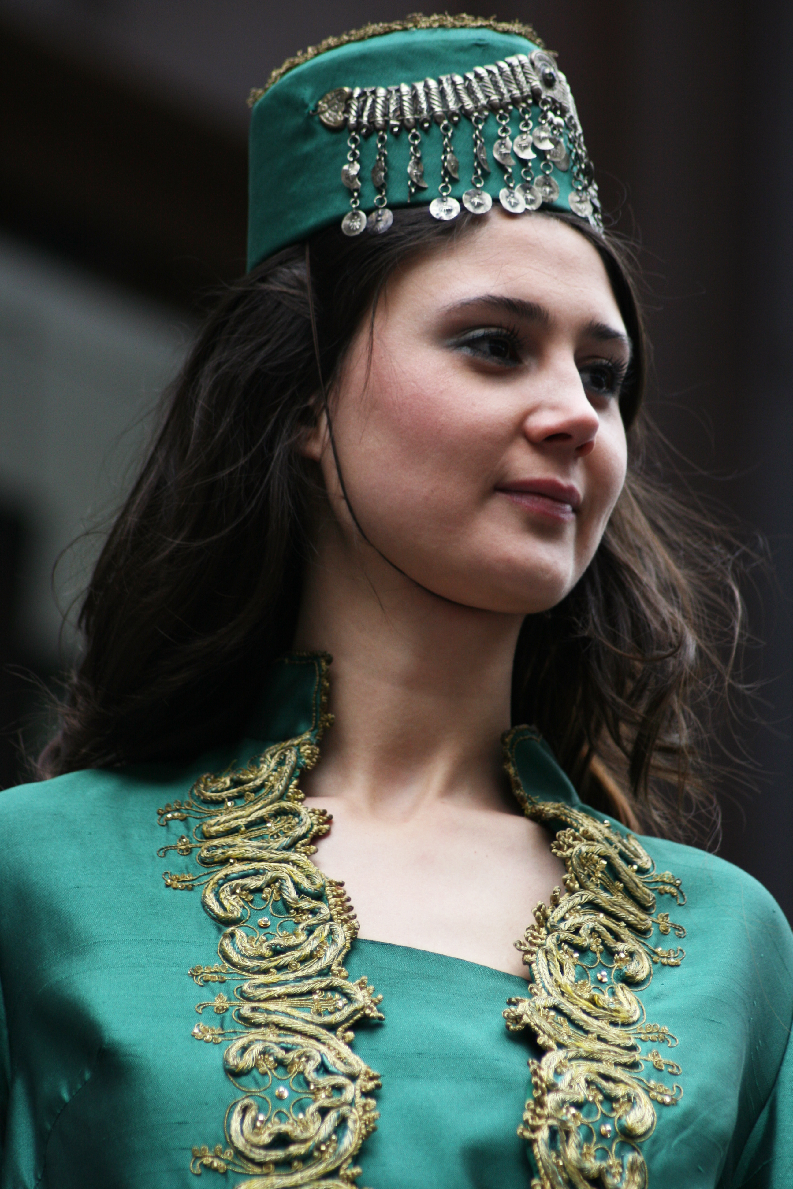 Turkish woman in traditional Ottoman costume.